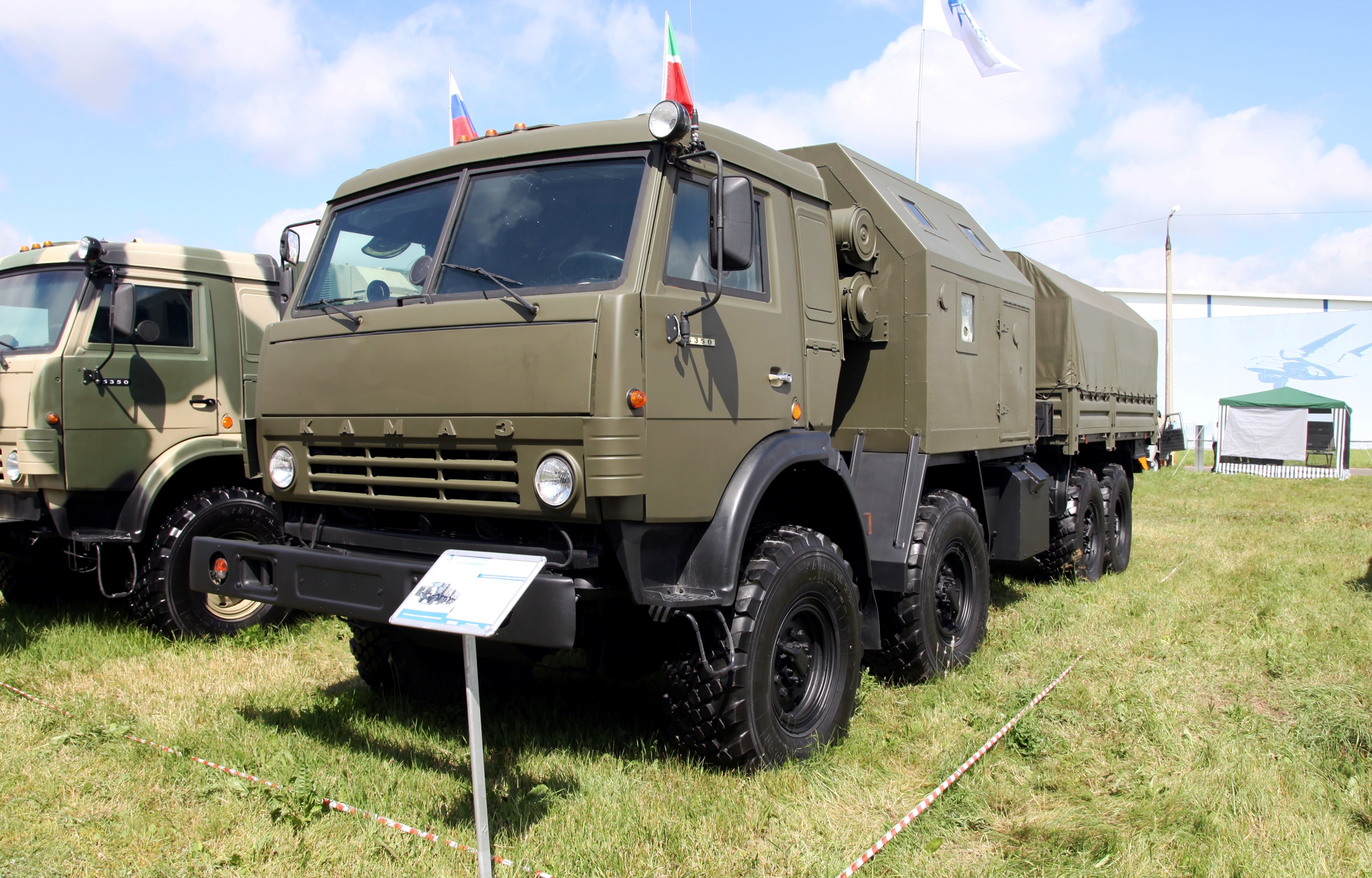 A KAMAZ-6350-376 at Engineering Technologies 2012 international forum.